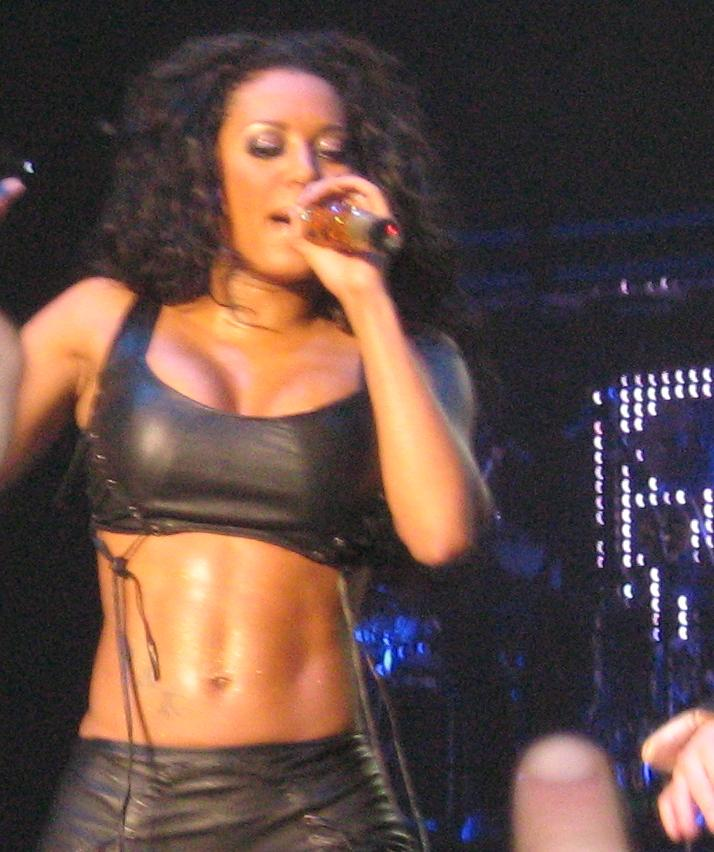 Melanie Brown in Cologne